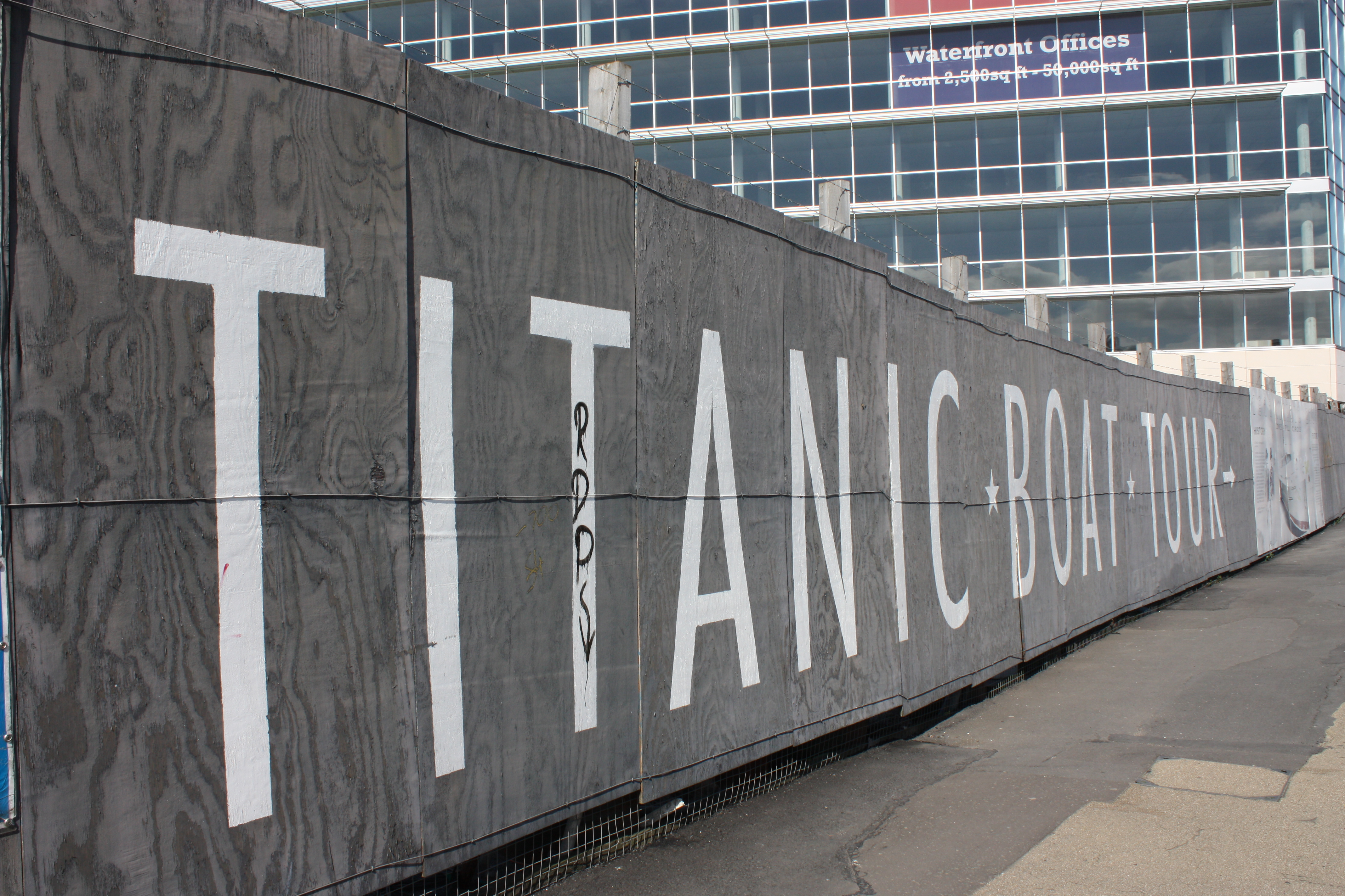 Titanic Boat Tour signage, Donegall Quay, Belfast, Northern Ireland, April 2010